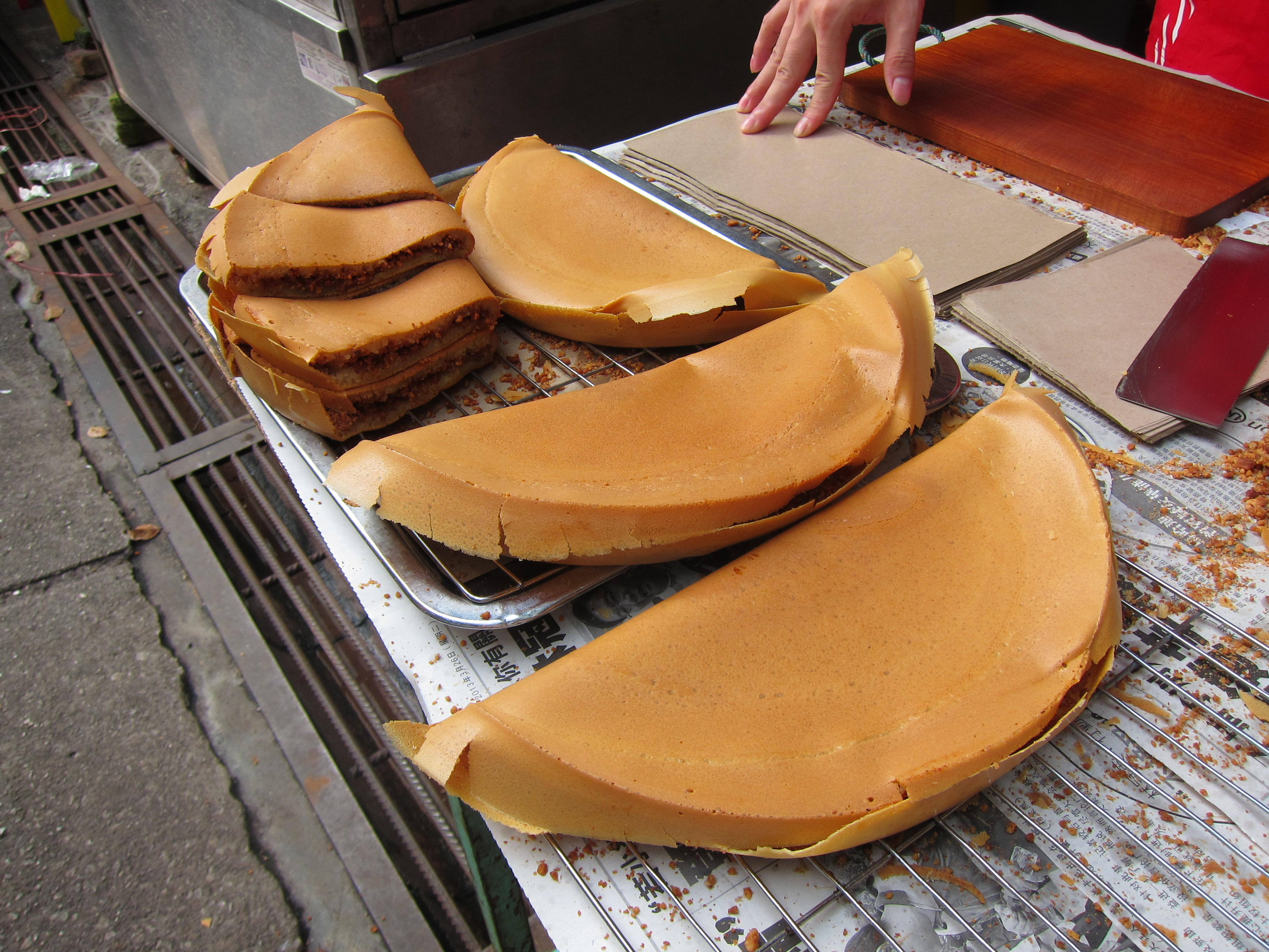 Apam balik on hawker stalls in Malaysia.